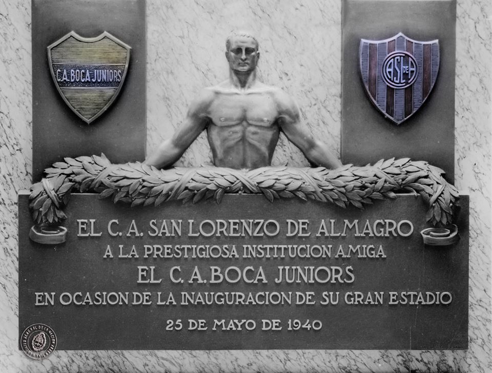 Placque donated by Club Atlético San Lorenzo de Almagro to Club Atlético Boca Juniors due to the inauguration of La Bombonera in Buenos Aires.